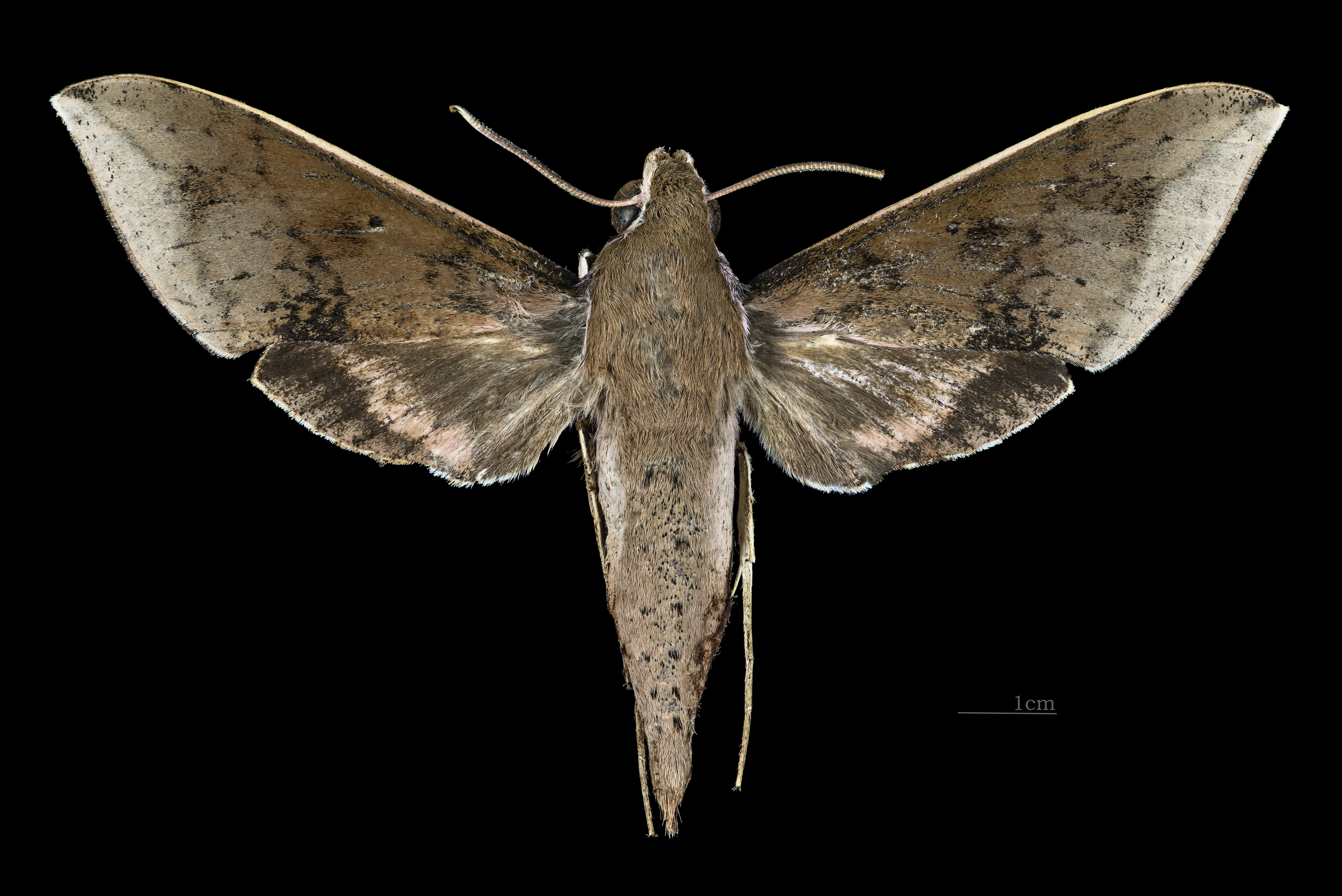 Rhagastis velata - Dorsal side Collection of the Mathematician Laurent Schwartz